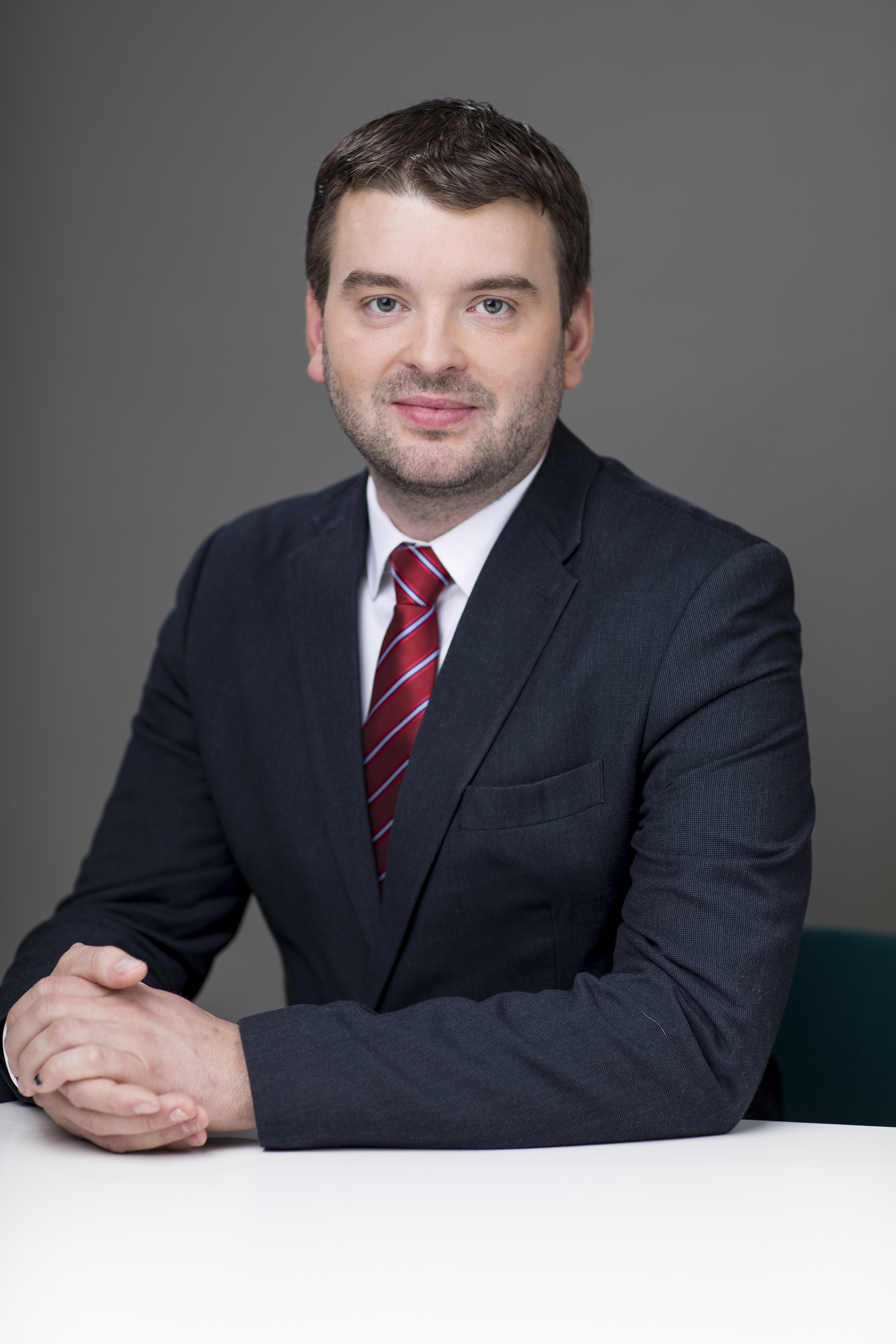 Portrait of Ásmundur Einar Daðason